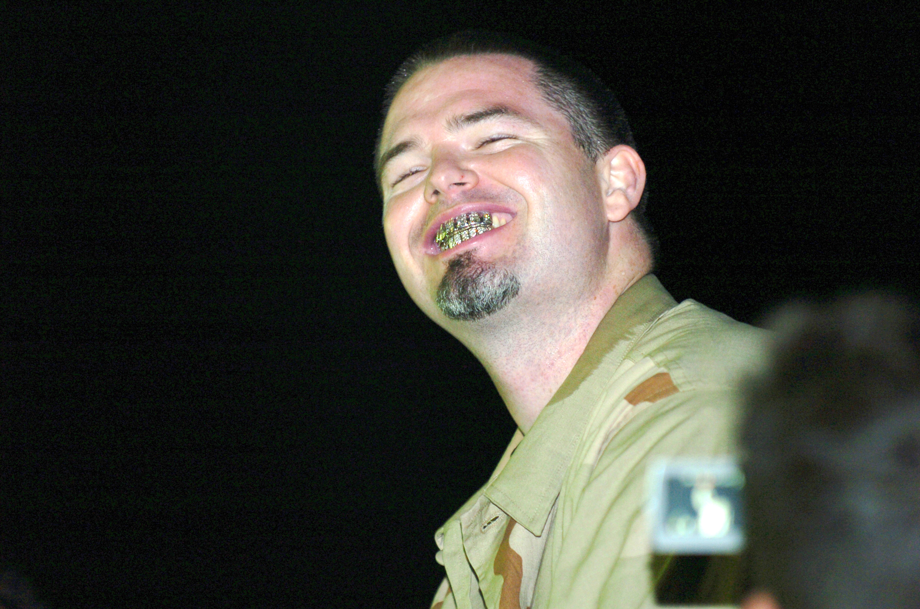 A fan snaps a picture as Paul Wall displays his signature platinum and diamond grill while singing the appropriately titled "Grillz" during the Jamie Kennedy Hip-Hop Comedy Tour at Camp Liberty, Iraq, Feb. 23.